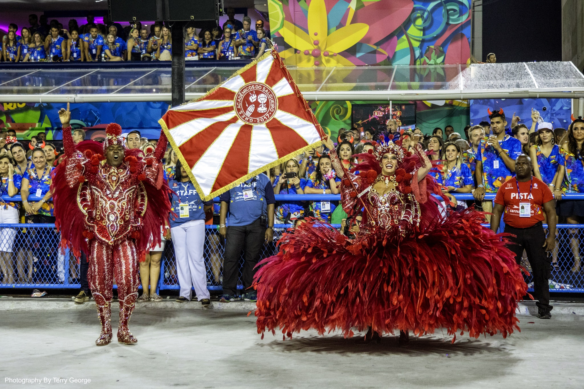 Rio Carnival 2017 By Terry George